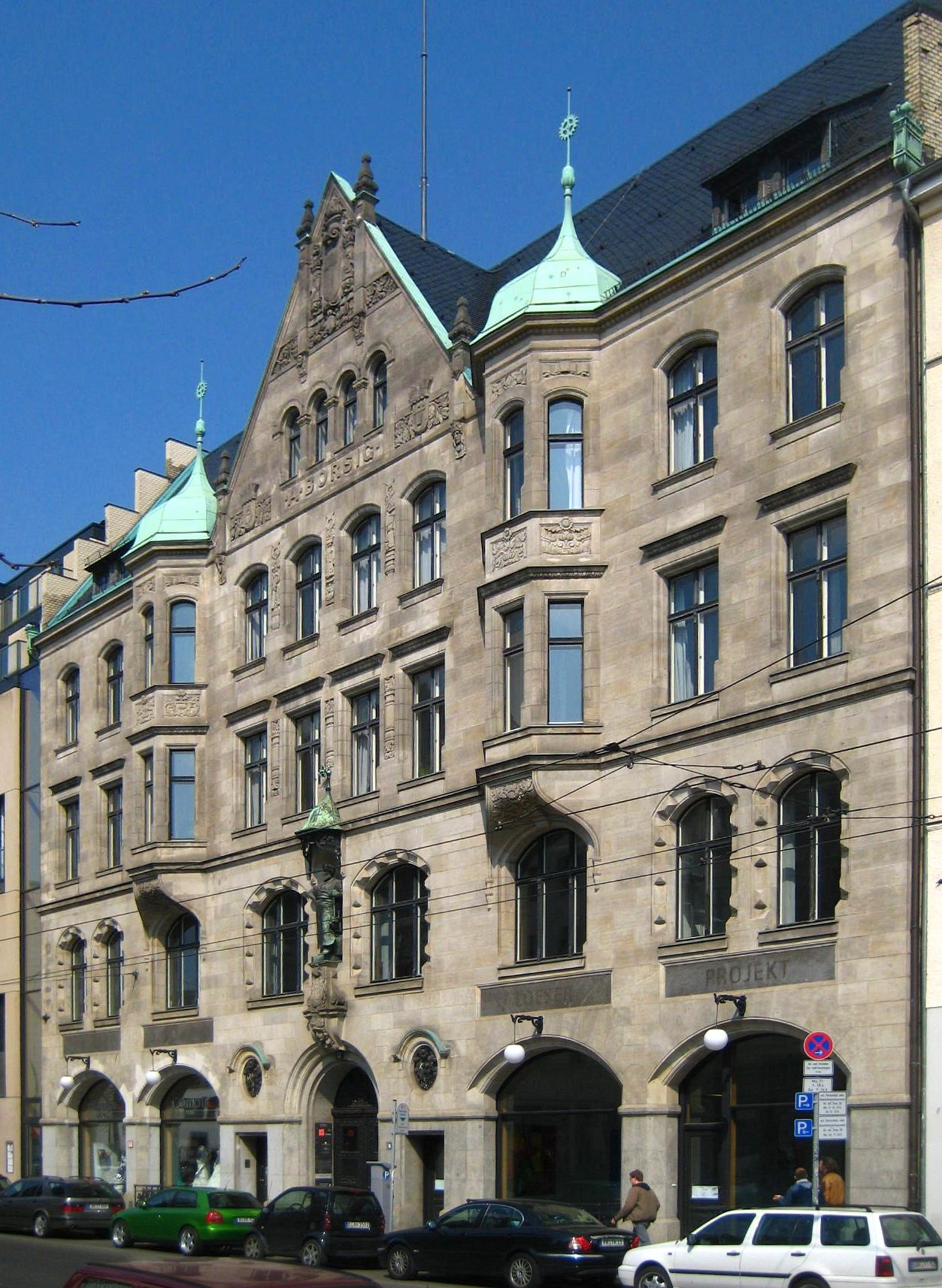 The Borsig House at Chausseestraße No. 13 in Berlin-Mitte. The building was constructed in 1899 to a design by the architects Konrad Reimer and Friedrich Körte. It has been designated as a historic landmark.